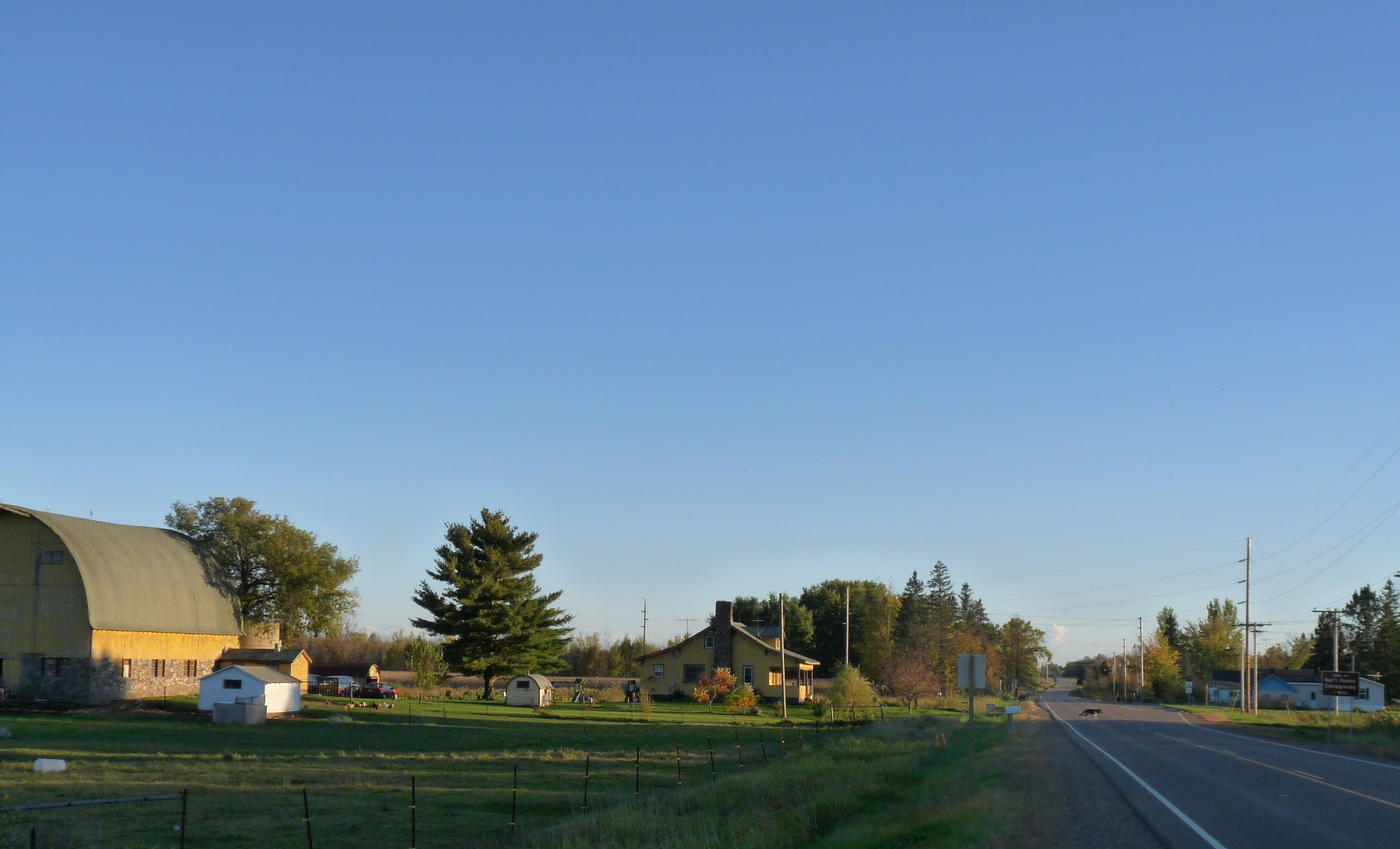 Hannibal, Wisconsin. Looking south on highway 73.